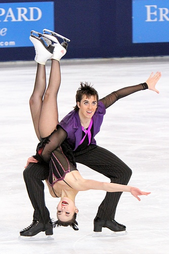 Madison Chock and Greg Zuerlein at the 2010 Trophy Eric Bompard.